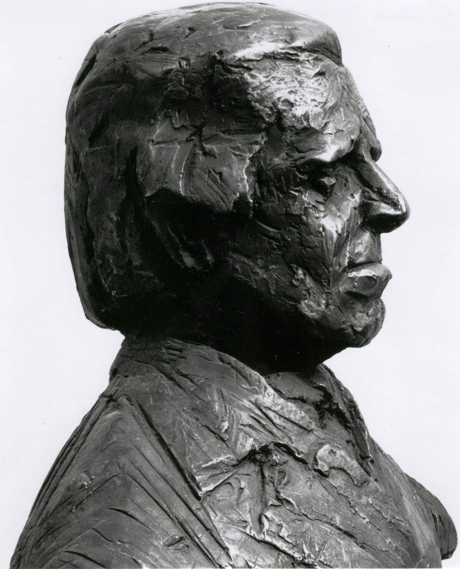 Bronze bust of the Frisian Popular Author Waling Dykstra, visible in Hallum. (Photo of the original bust of blackened plaster). Waling Dykstra is an ancestor of the artist's wife. Made by the sculptor Chris Fokma.